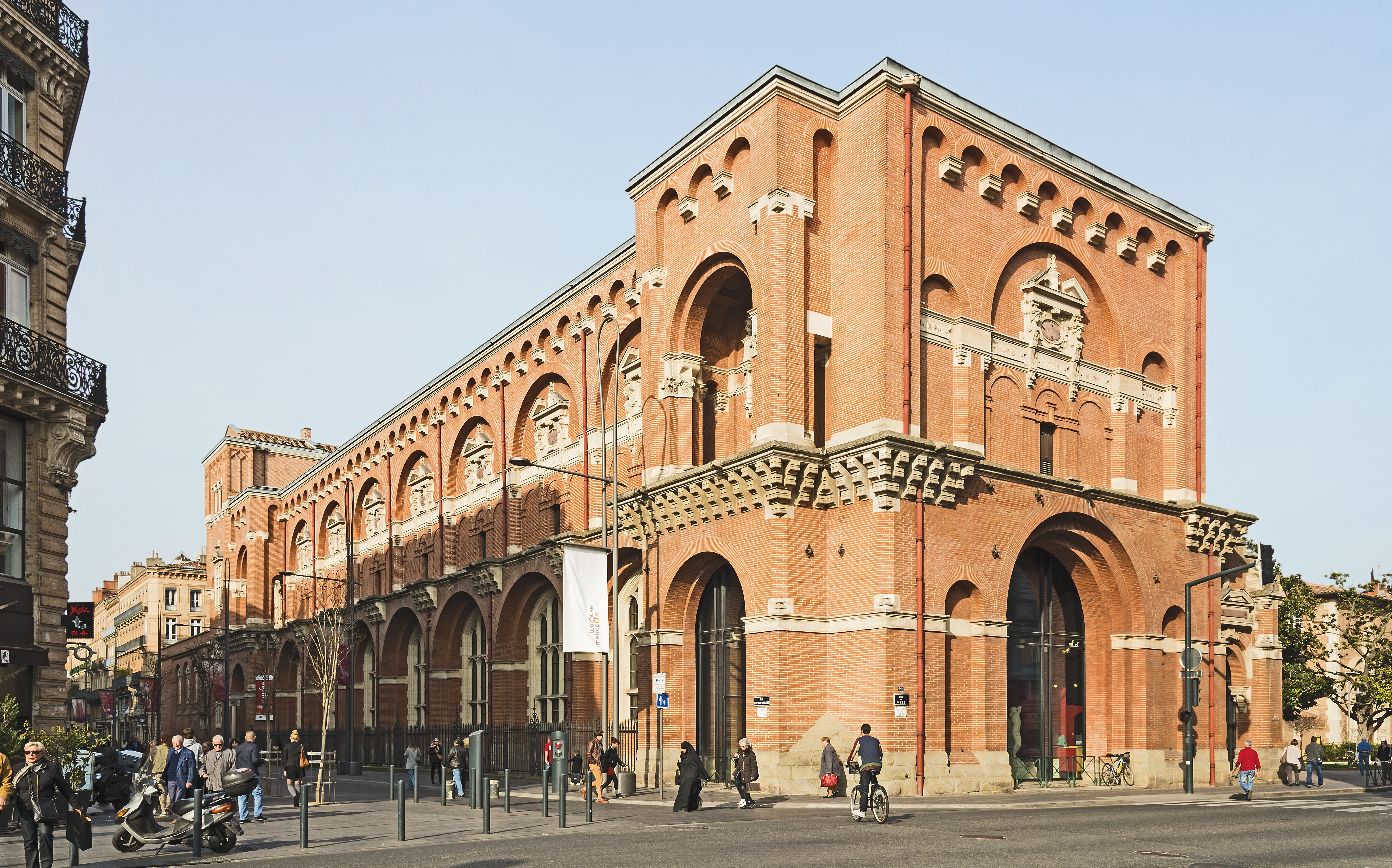 Musée des Augustins in Toulouse. Aile Darcy - Viollet-le-duc.